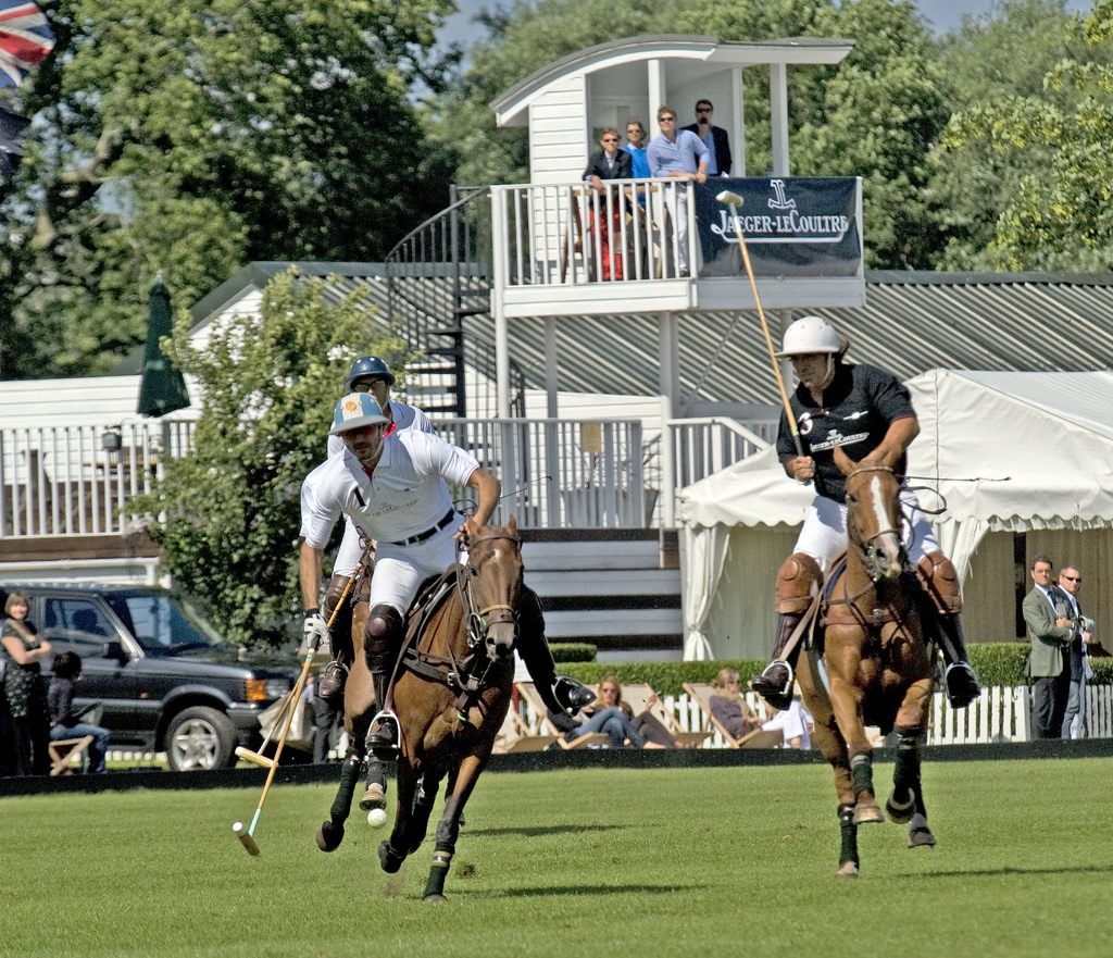 Adolfo Cambiaso and Alejandro Diaz Alberdi at the 2008 Jager LeCoultre day at Ham Polo Club, London.